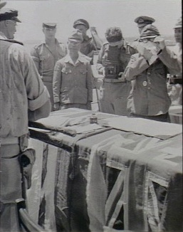 Australian War Memorial catalogue number P02325.006. Koepang, Timor. 1945-09-11. Surrender ceremony aboard HMAS Moresby. Sergeant Keith. B. Davis, official photographer Military History Section (MHS) (centre), is photographing the proceedings with a Mentor Reflex camera. RAN crewmen are observing the ceremony (an officer, probably Major John Baillieu, at far left is holding swords surrendered by the Japanese). A Japanese Officer, either Colonel T. Kaida or Major Shoji (right), is using a handkerchief to wipe away tears in front of the table draped with an Australian flag. (Donor: K. Davis)